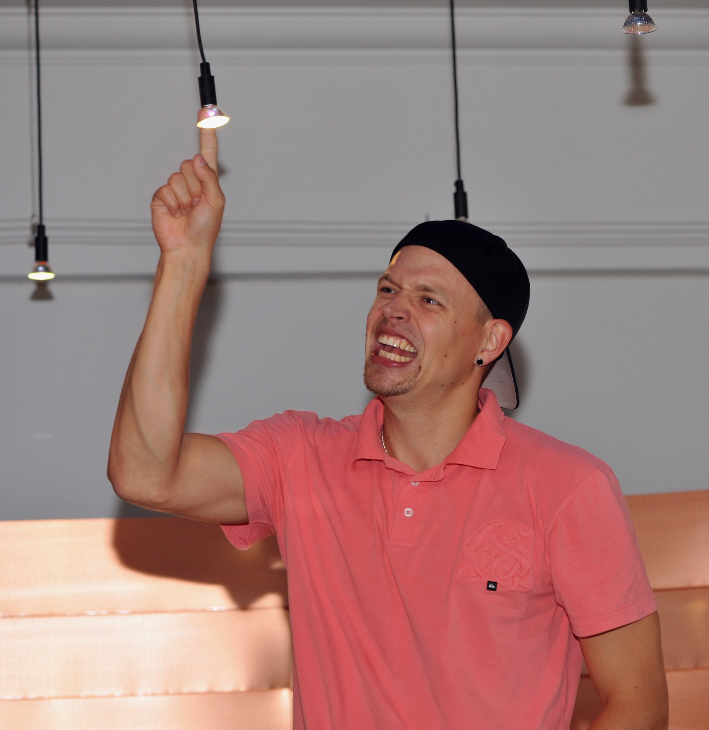 Signmark, Finnish rap artist, performing at the Night of the Arts in Helsinki, 2009.